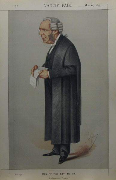 Caricature of Thomas Erskine May (1815–1886). Caption read "Parliamentary Practice".